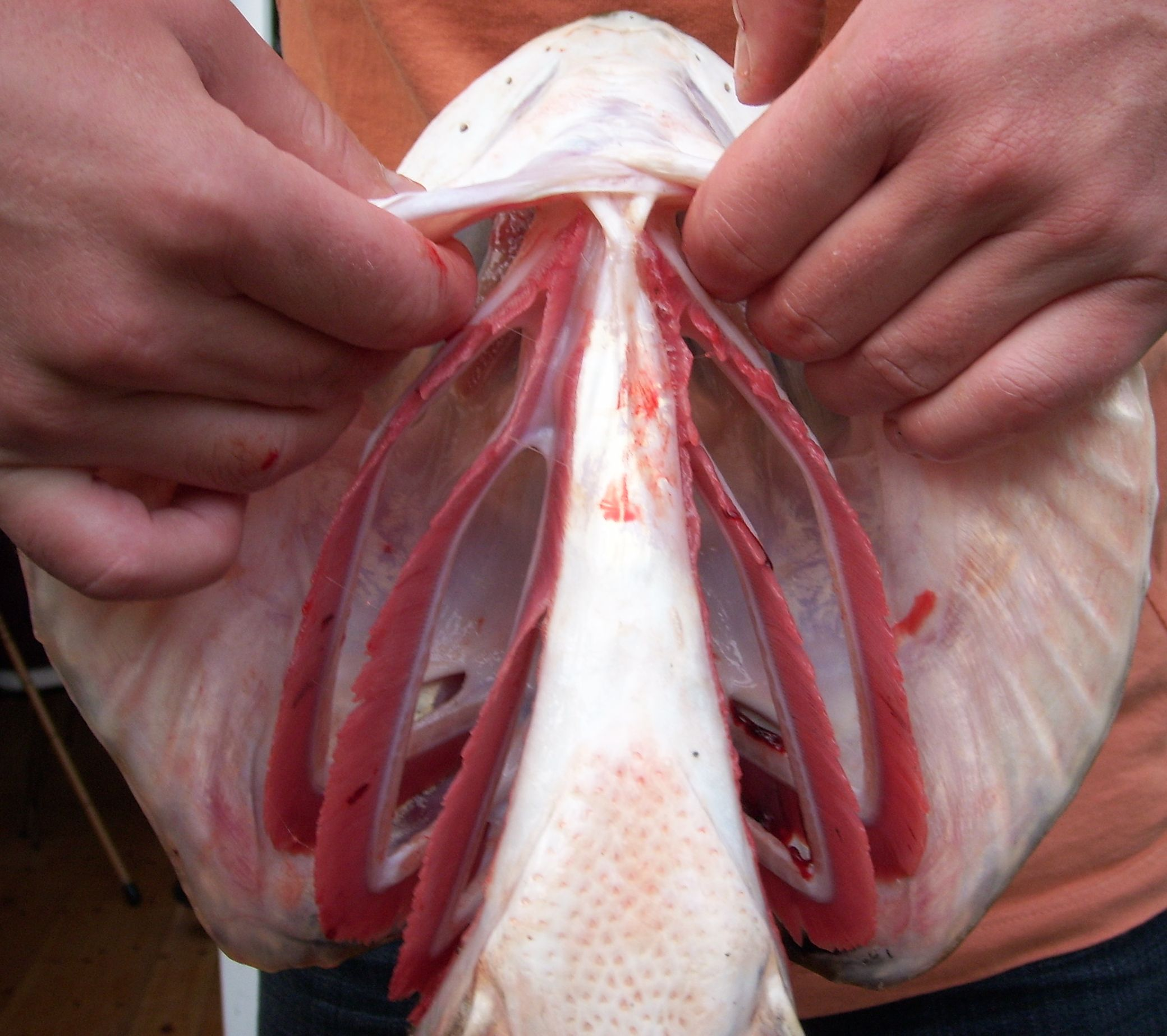 Gill arches of a Northern Pike (Esox lucius)